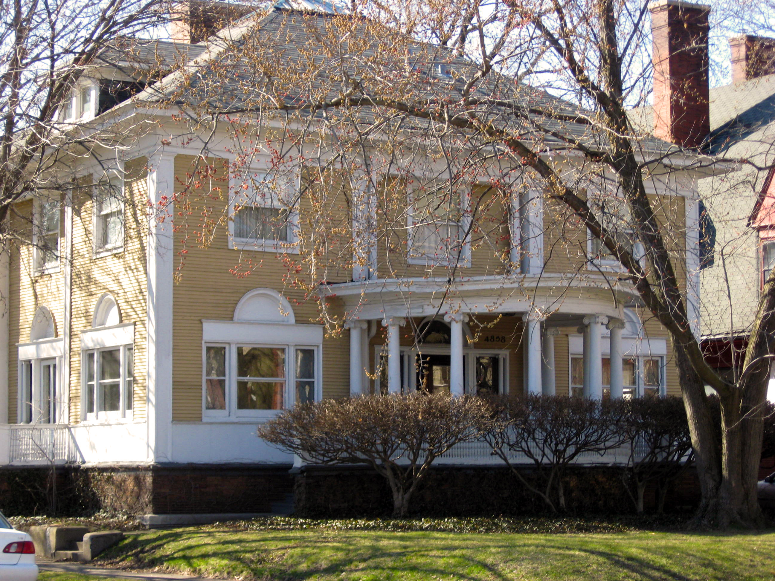 George Blossom House (1892) 4858 S Kenwood Ave Chicago, IL 60615 Architect: Frank Lloyd Wright